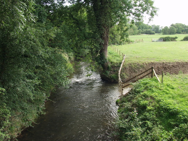 River Morda at Morton Bridge Lovely little river heading towards the Severn. The interesting arrangement of fencing to the right is to allow livestock to drink. (A "watering".)